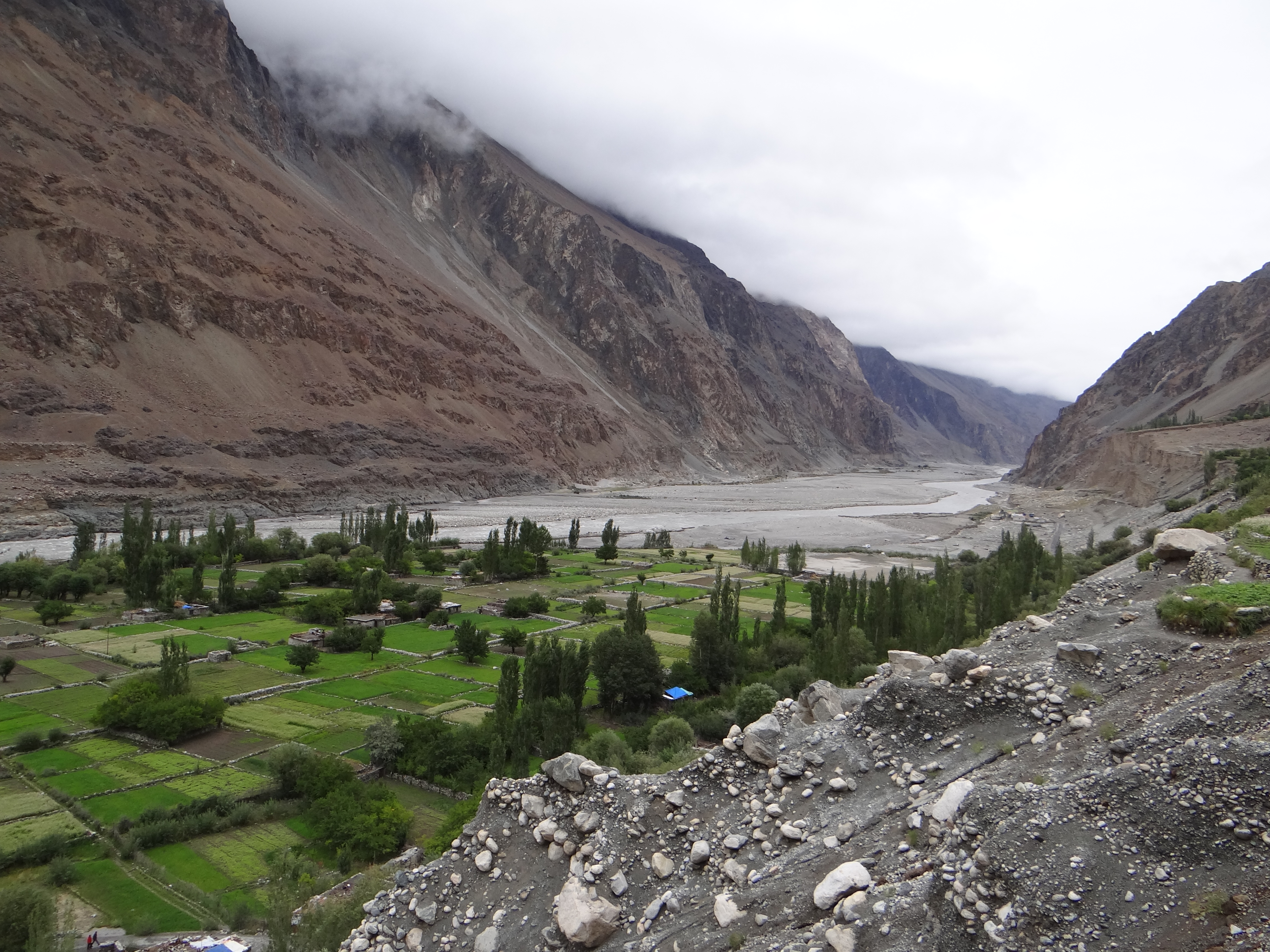 View of River Shyok near Turtuk Village in Ladakh District, Jammu and Kashmir State, India